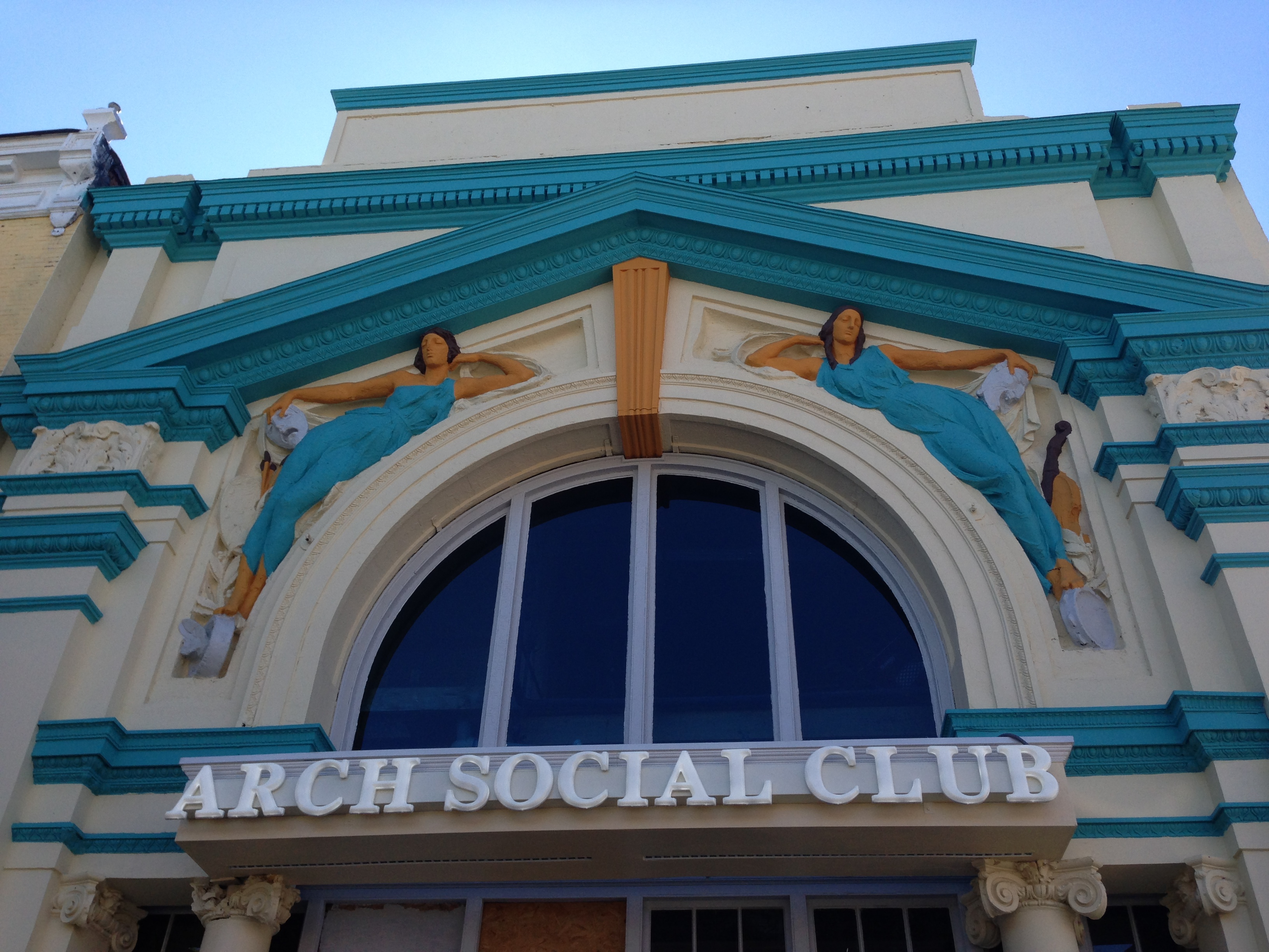 An image of the facade of the Arch Social Club after its restoration. Before the building was occupied by the club in 1972, it was a movie theater known for its showings of Yiddish films.